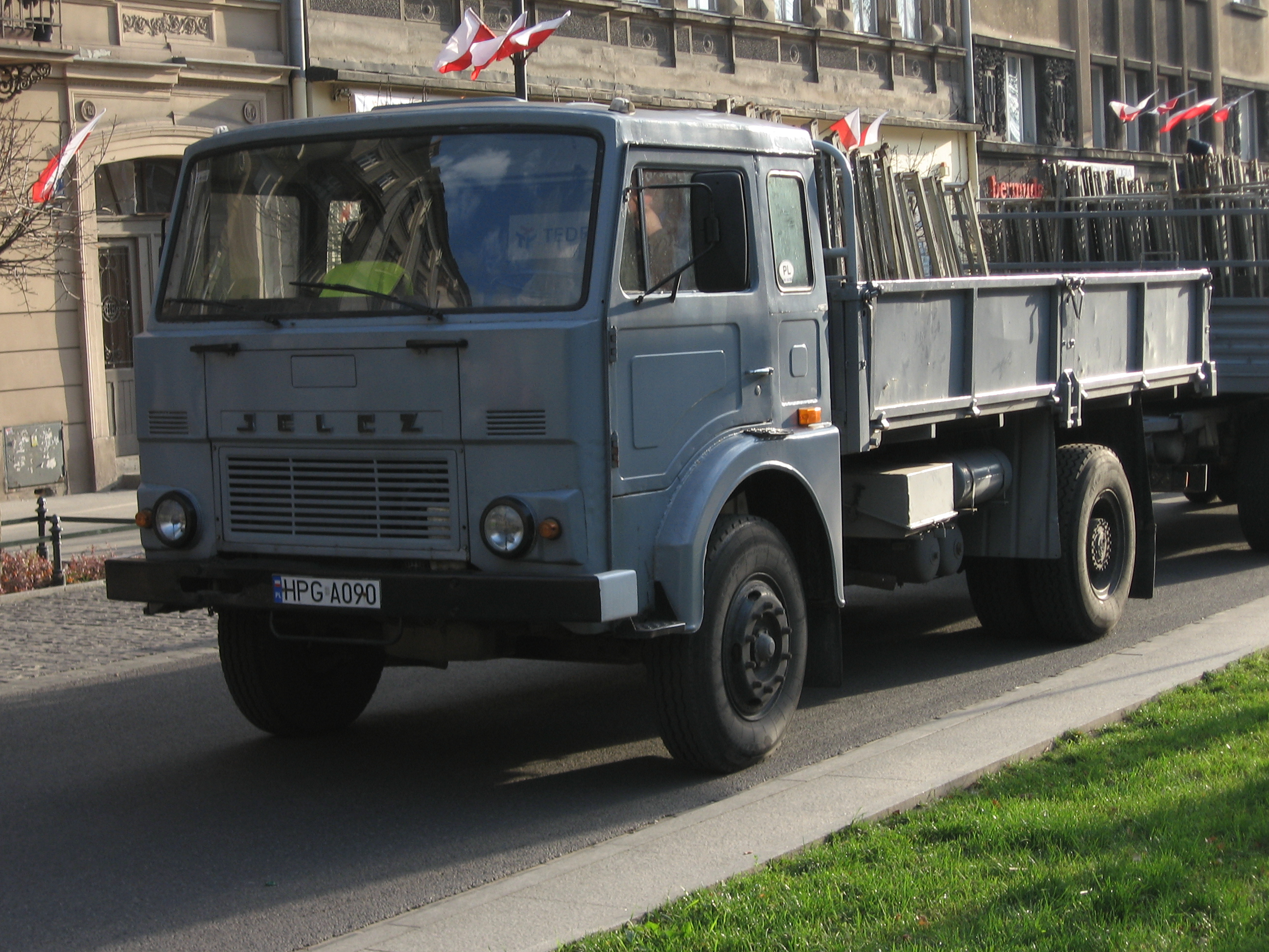 Grey Jelcz truck of the Polish Police on Matejki square in Kraków, Poland.